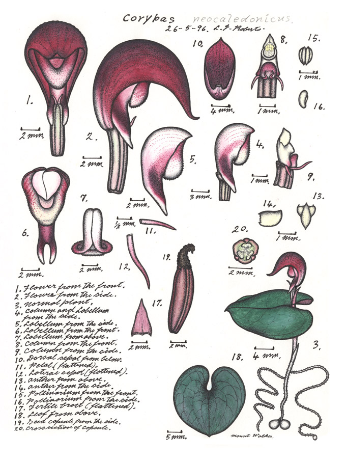 This is one of a series by Lewis Roberts